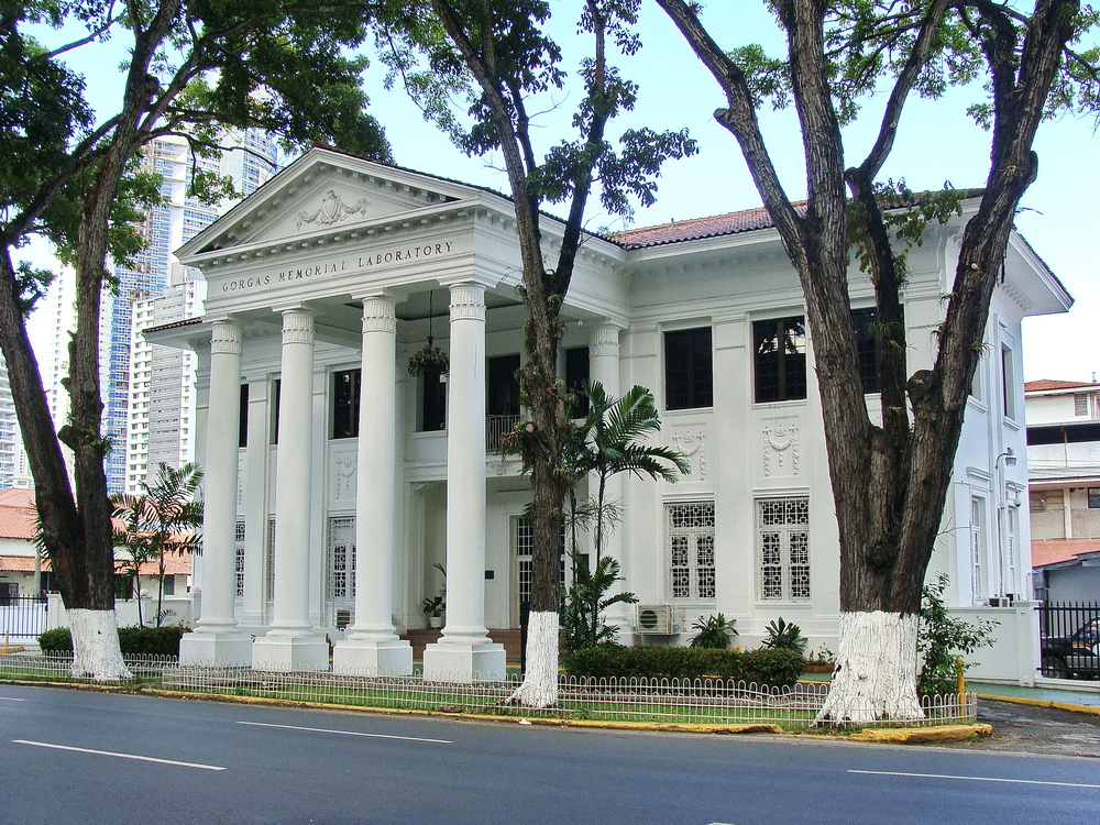 Gorgas Laboratory